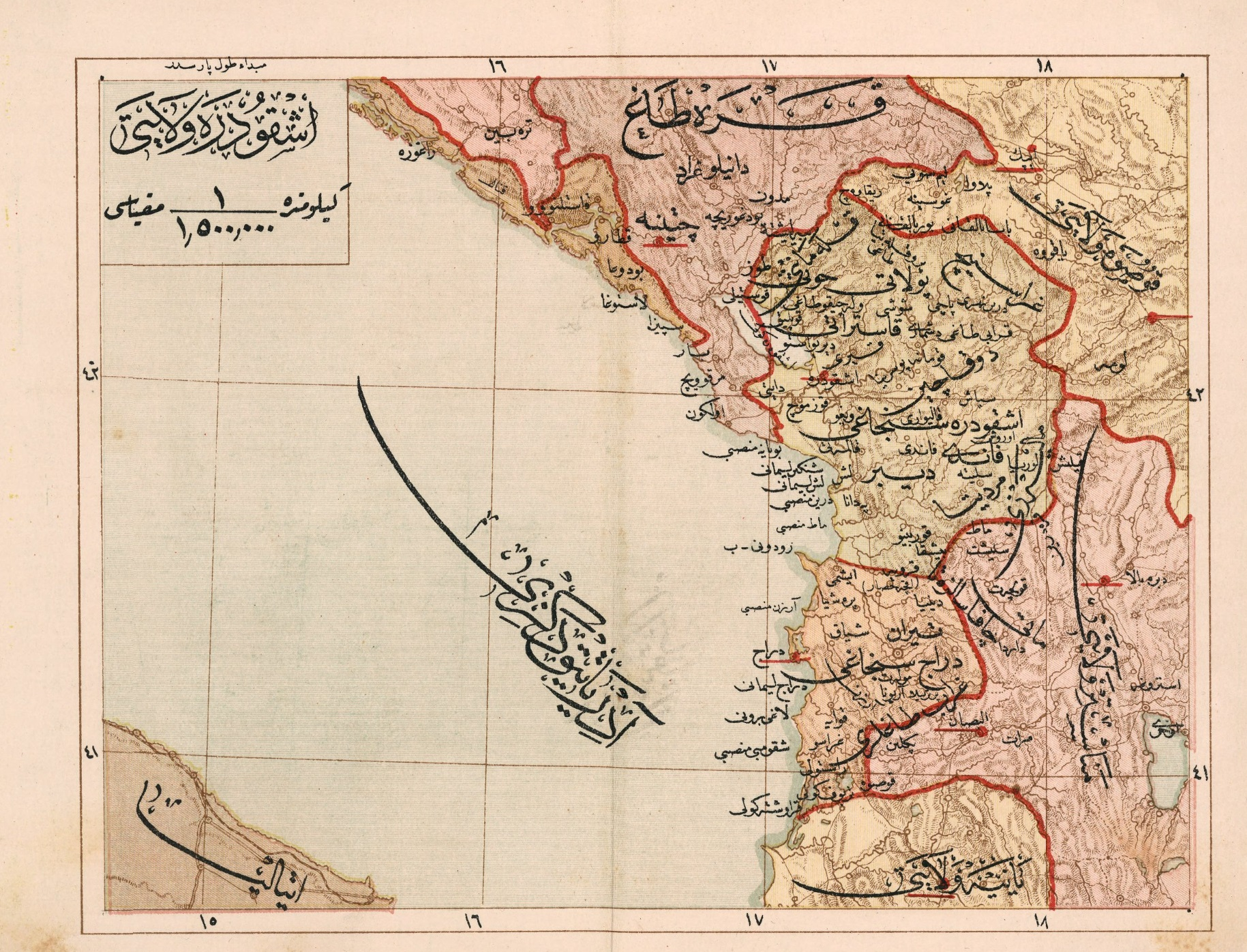 Scutari Vilayet — Memalik-i Mahruse-i Şahaneye Mahsus Mukemmel ve Mufassal Atlas (1907)